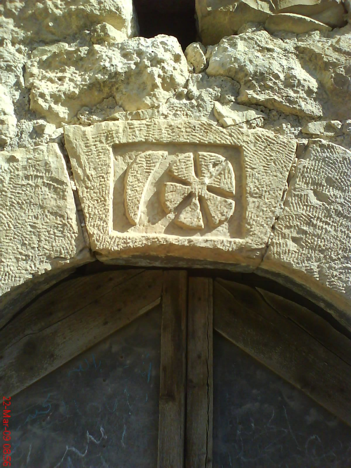 This is an image on a doortop in Yatta, Southern Mount Hebron, which has been likened to a star of David